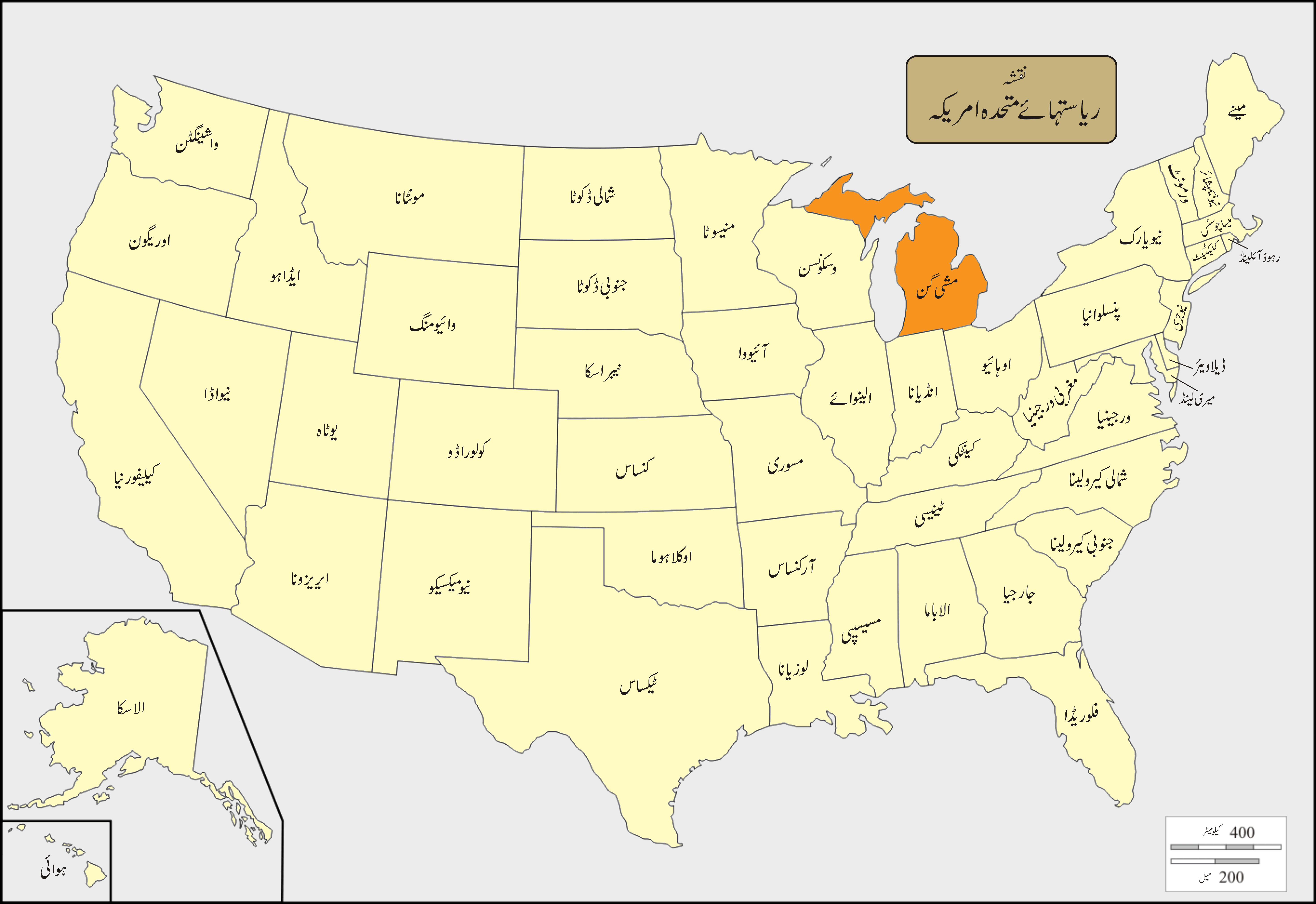 USA Names Michigan